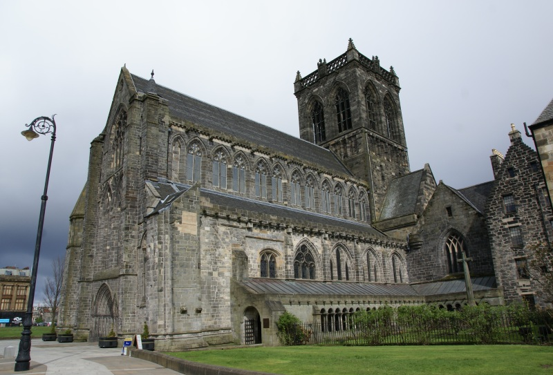 Paisley Abbey, Paisley, Renfrewshire, Scotland. View from southwest.